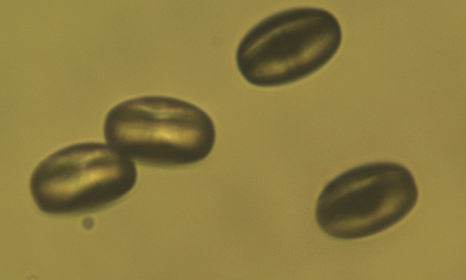 Cyclamen persicum Pollen 400x